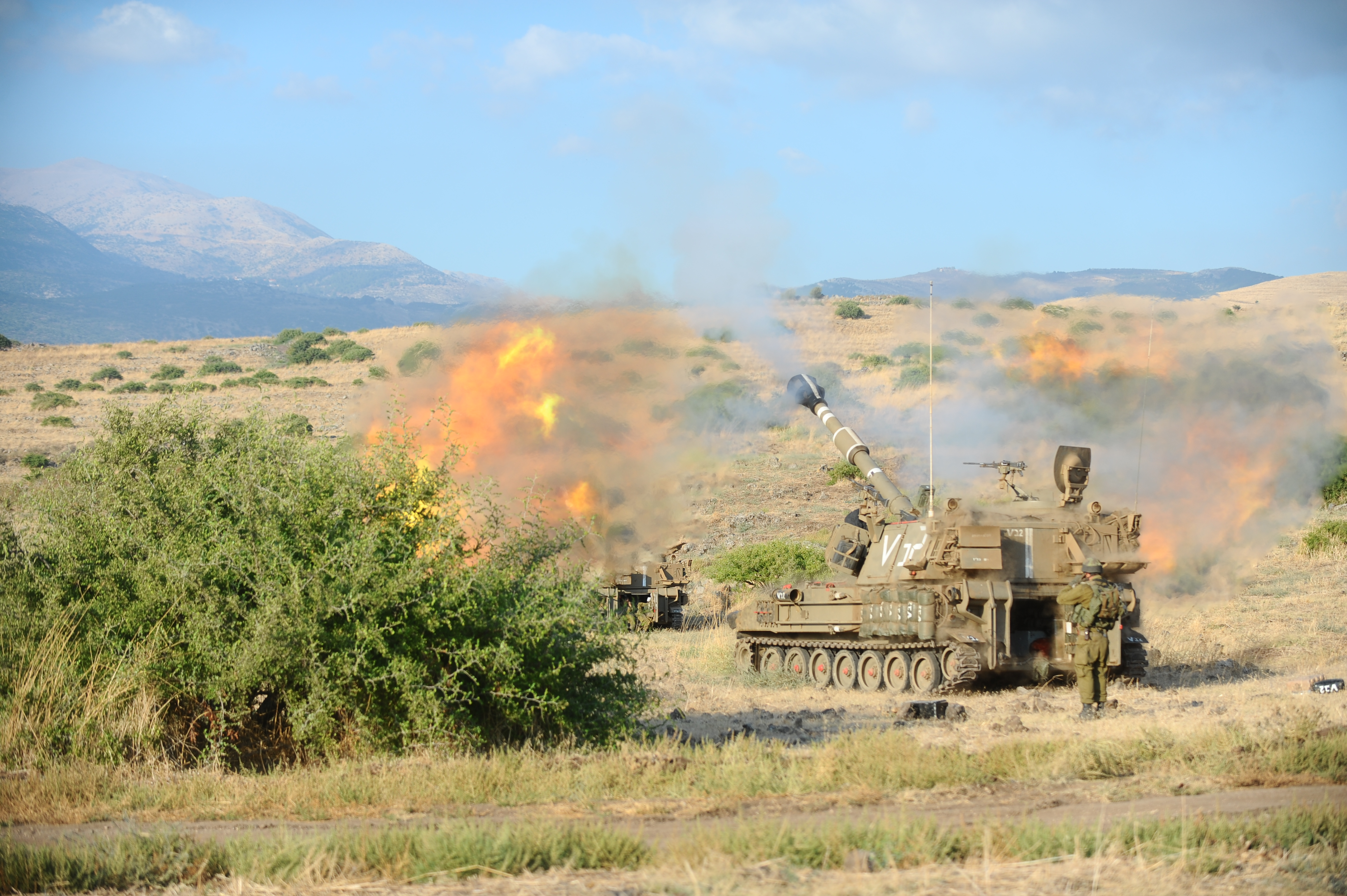 The IDF Artillery Corps is responsible for operating the army's network medium and long-range artillery. The corps is placed in charge of two principal tasks: assisting the maneuvering forces at the necessary time place, and with the required firepower. Its second task is to confront enemy forces deep inside the battlefield. Photo by Sgt. Ori Shifrin, IDF Spokesperson's Unit